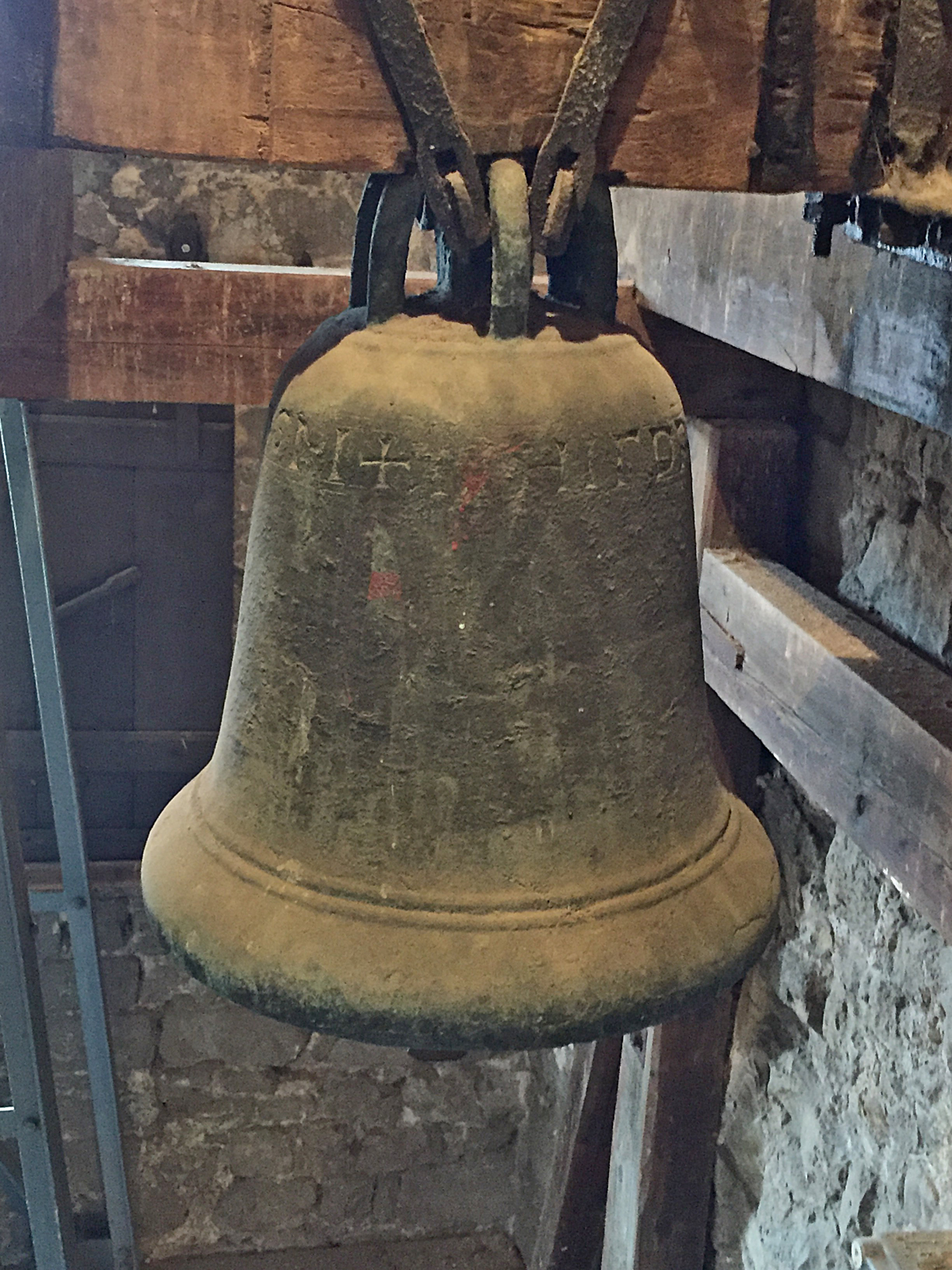 Old bell of St. Marien church in Drohndorf from 11th-12th century